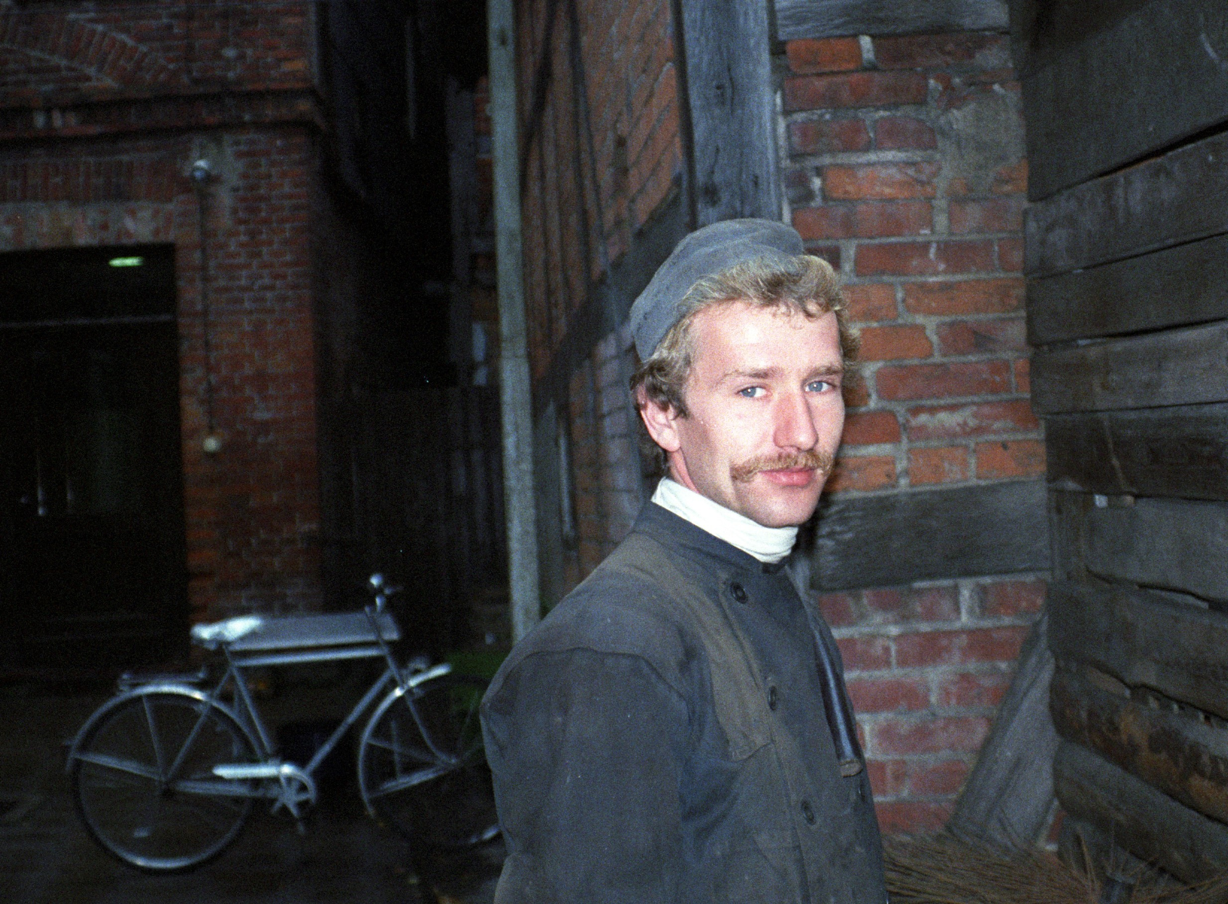 Chimney sweep in Hamburg-St.Pauli